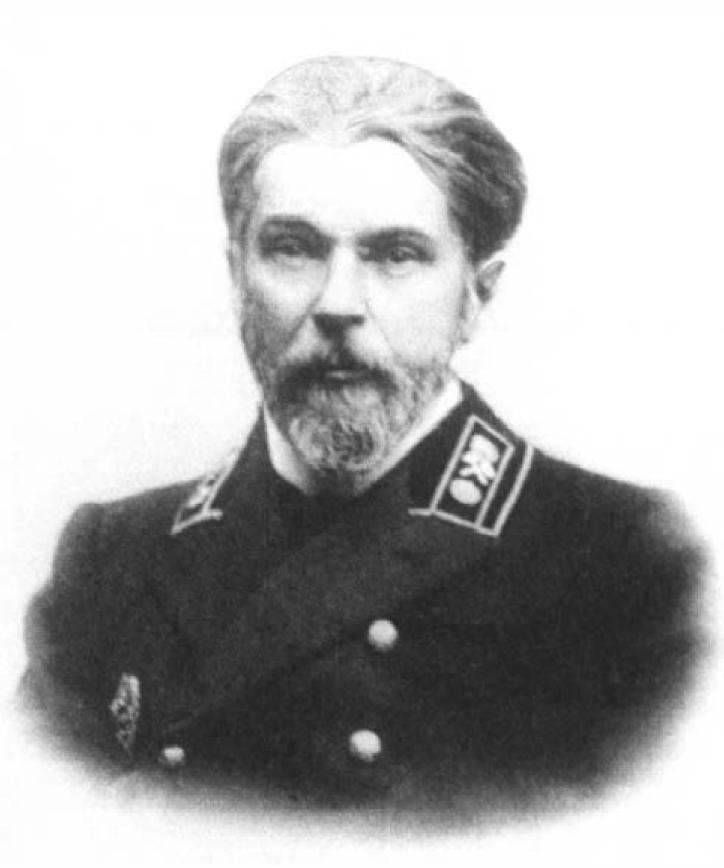 Aleksander Michalski (1855-1904) - polish geologist